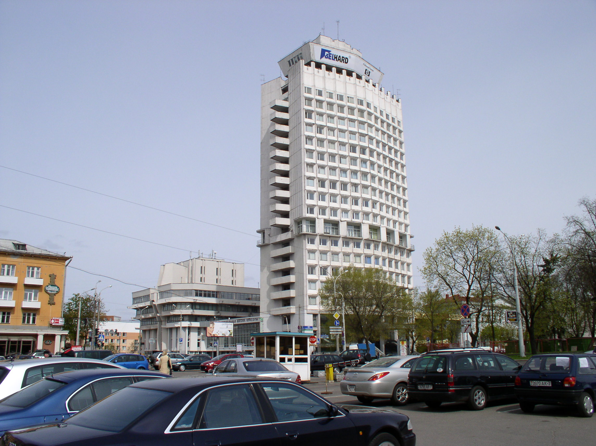 Melnikayte street, 2, 4. Minsk, Belarus.